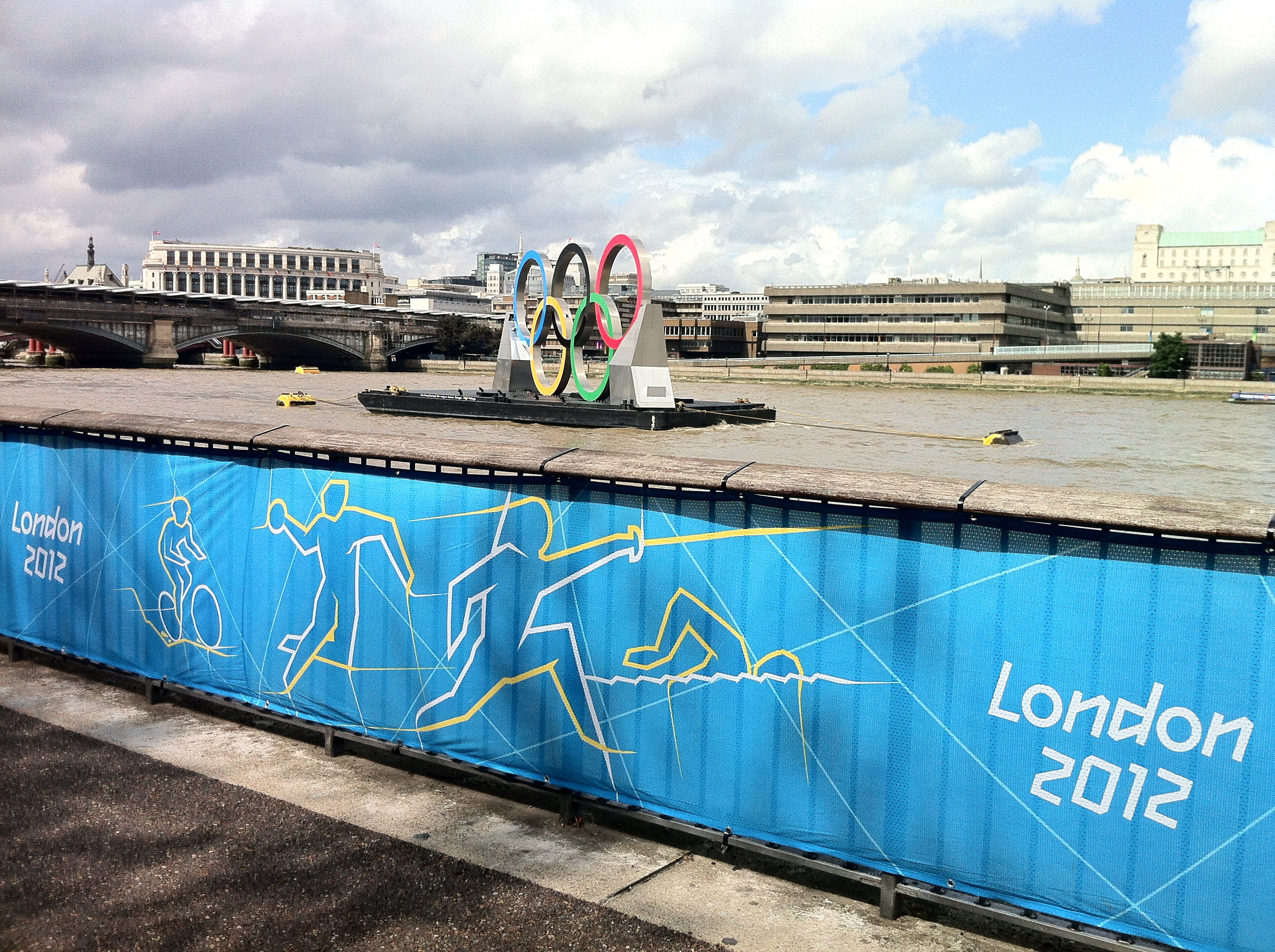 London during the Olympics